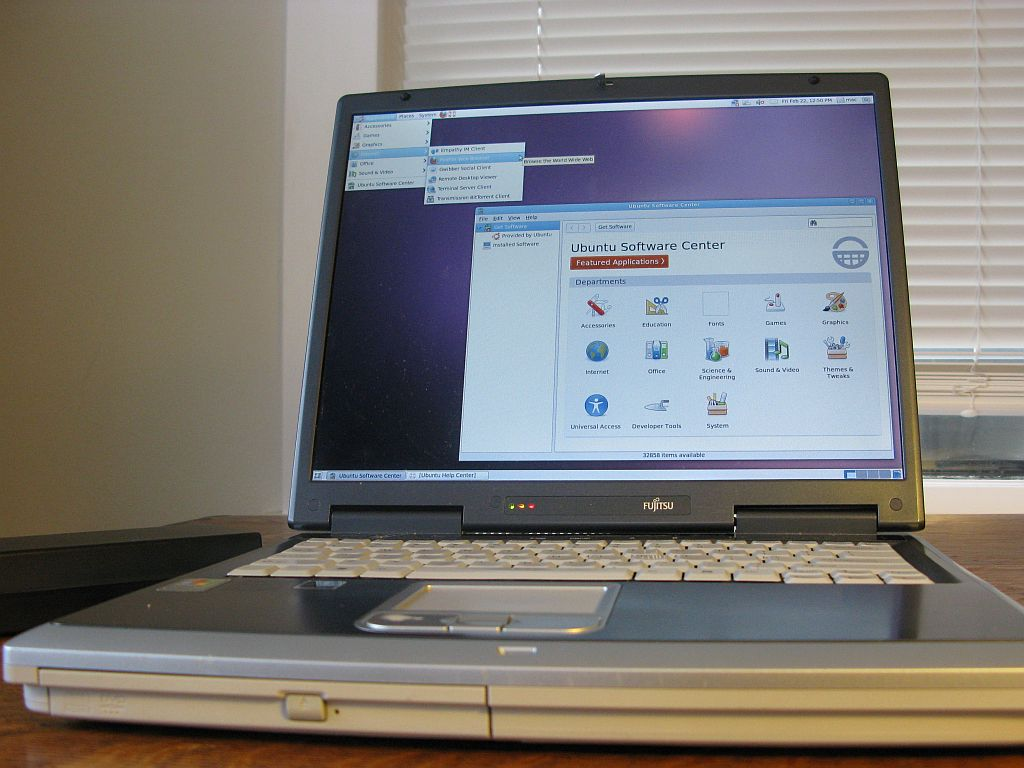 Because of its lower resource demands, operating system Linux can give new life to older machines.